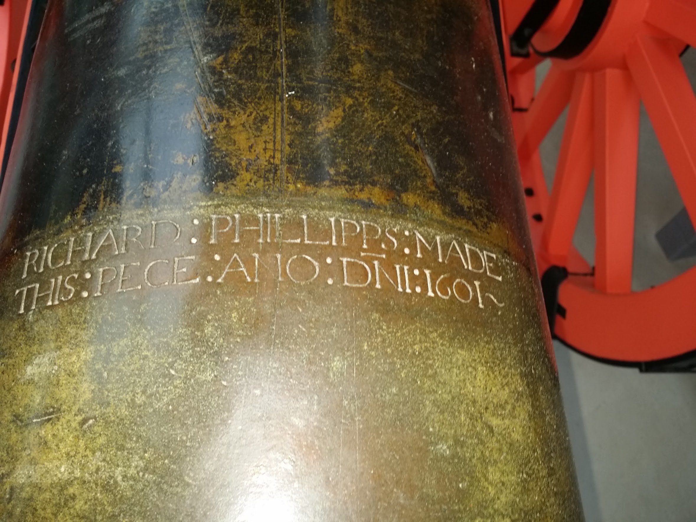 RICHARD PHILLIPPS MADE THIS PECE ANO DNI 1601